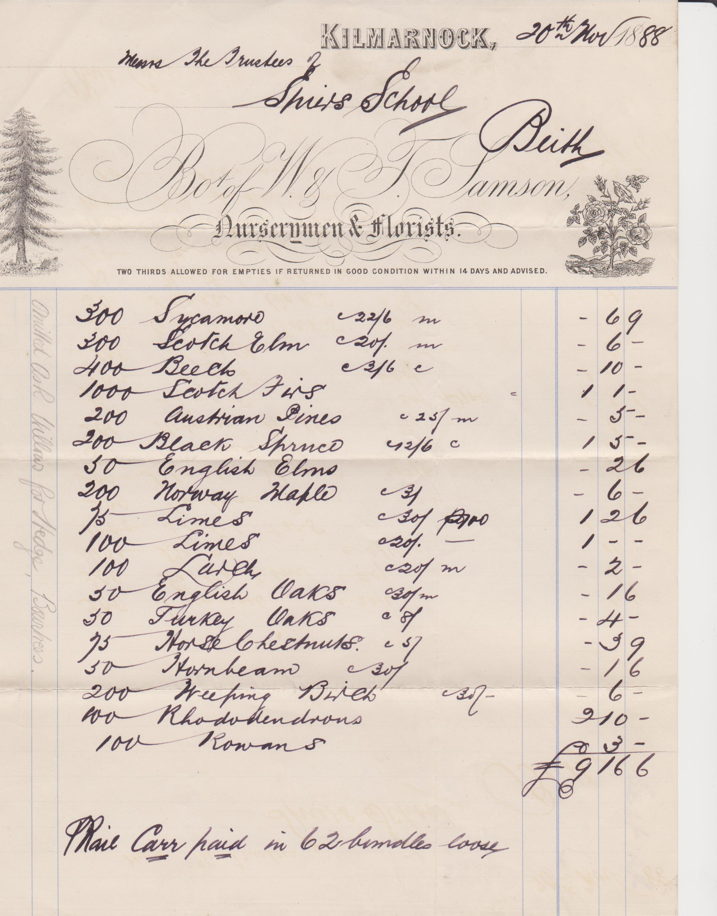 Spier's tree planting list of 1888. Beith, North Ayrshire, Scotland.